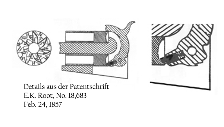 Colt Root's Patent 1857